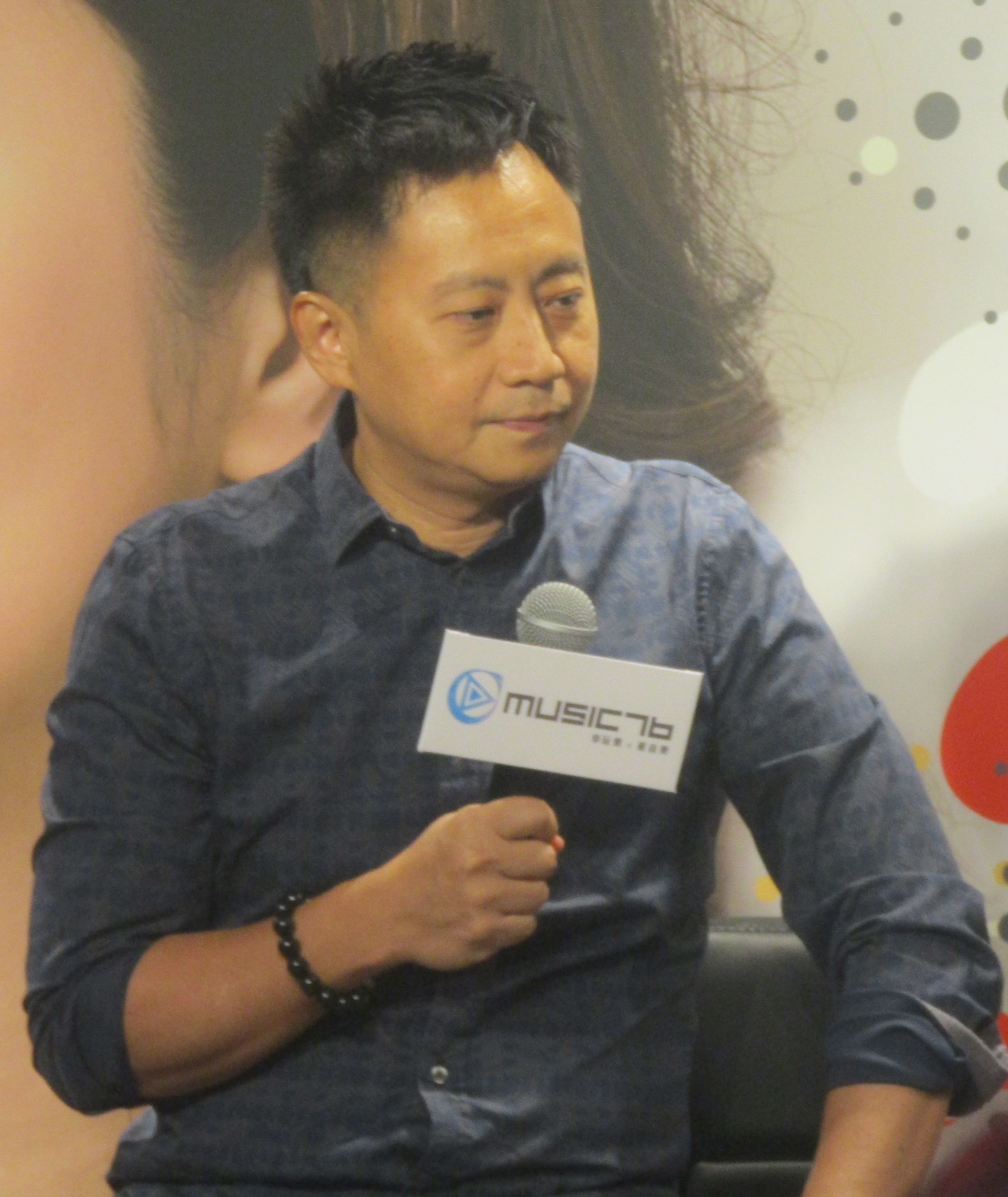 Andrew Tuason attended the event in Houston Centre